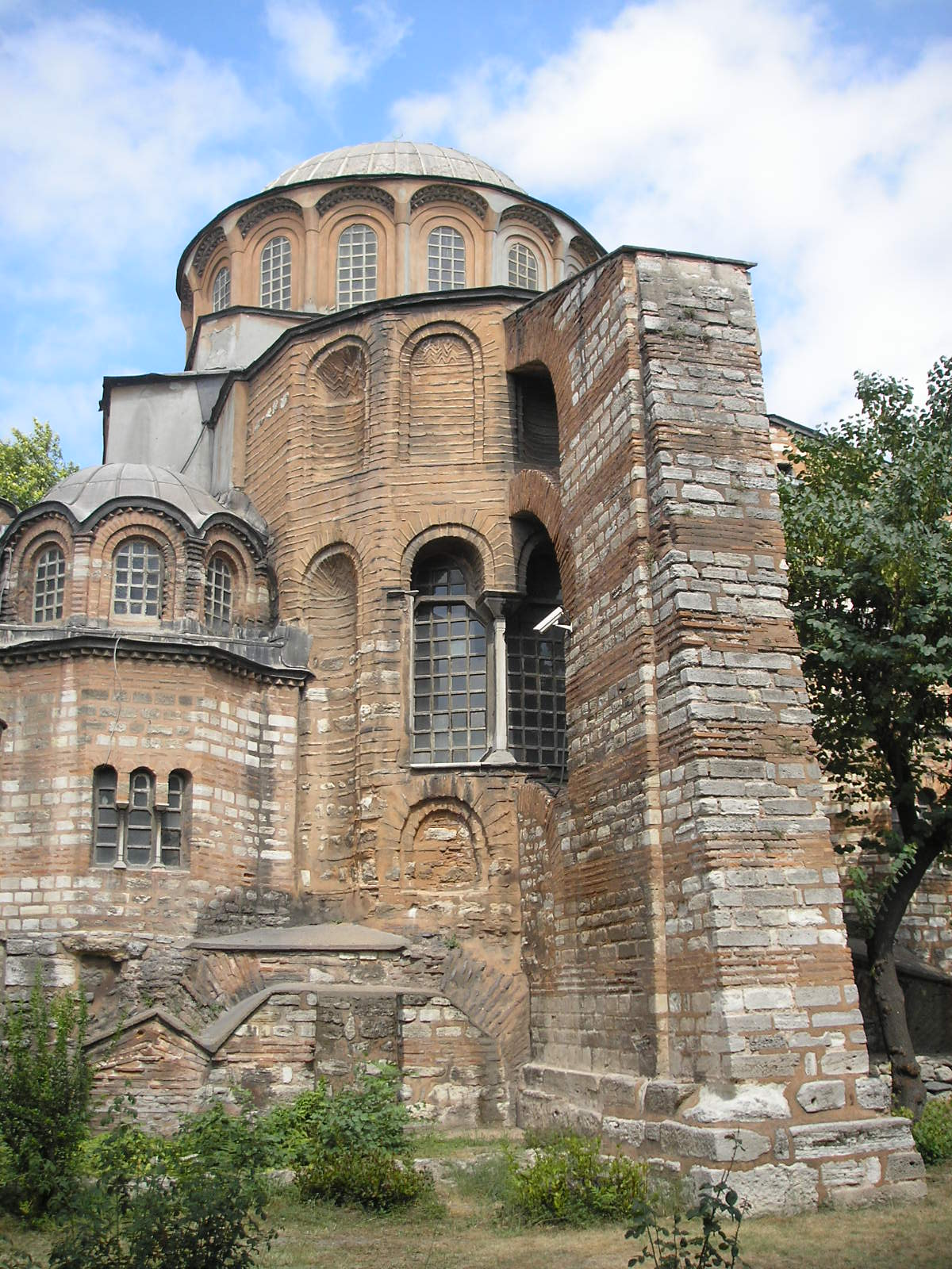 Exterior of the Chora Church in Istanbul, today a museum. It is famous for it Byzantine mosaics.